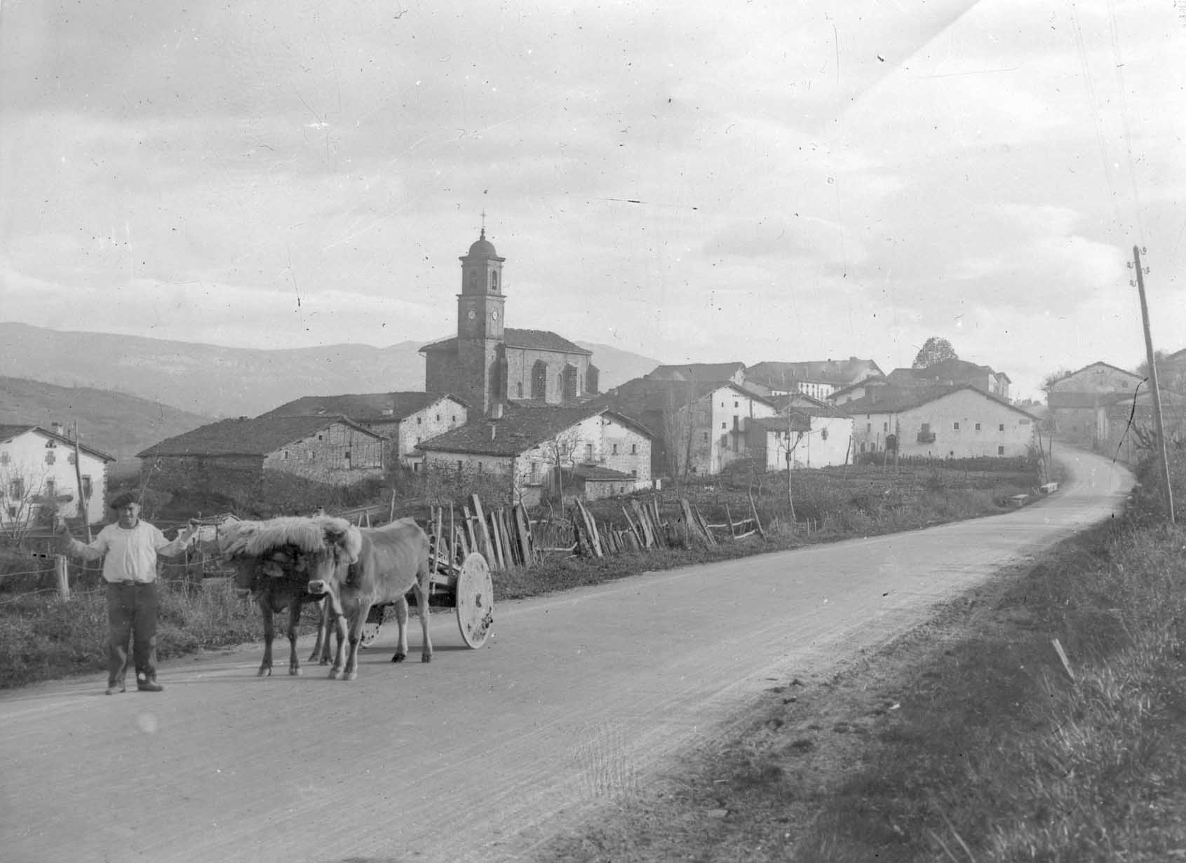 Bakaiku, in Navarre, Basque Country.